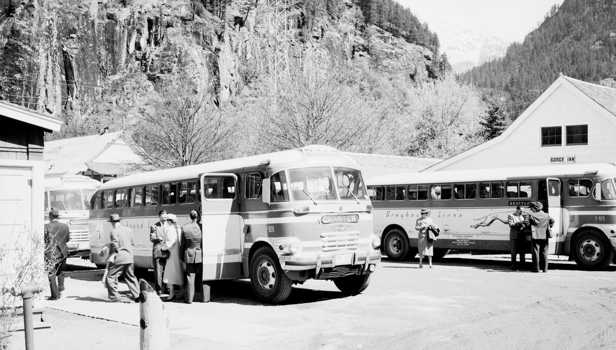 Greyhound Buses at Gorge Inn, Newhalem, Washington, 1952.